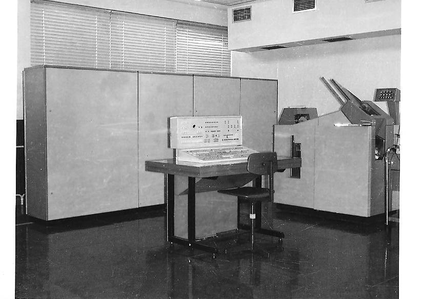 This photo is from my book: Racunari TIM,p.166,N.K, Belgrade 1990.